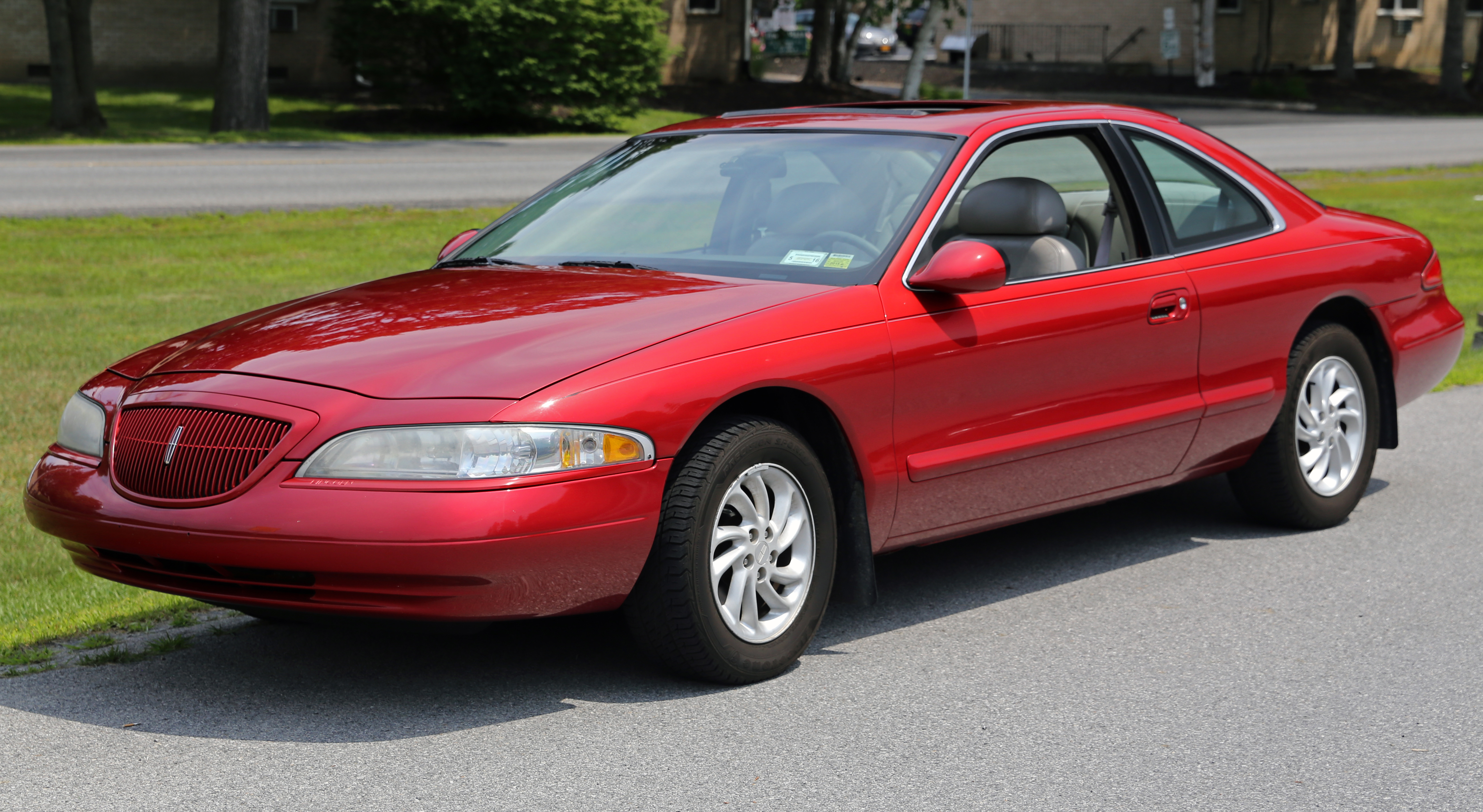 1998 Lincoln Mark VIII LSC. Not exactly a success when new, and becoming quite rare these days.